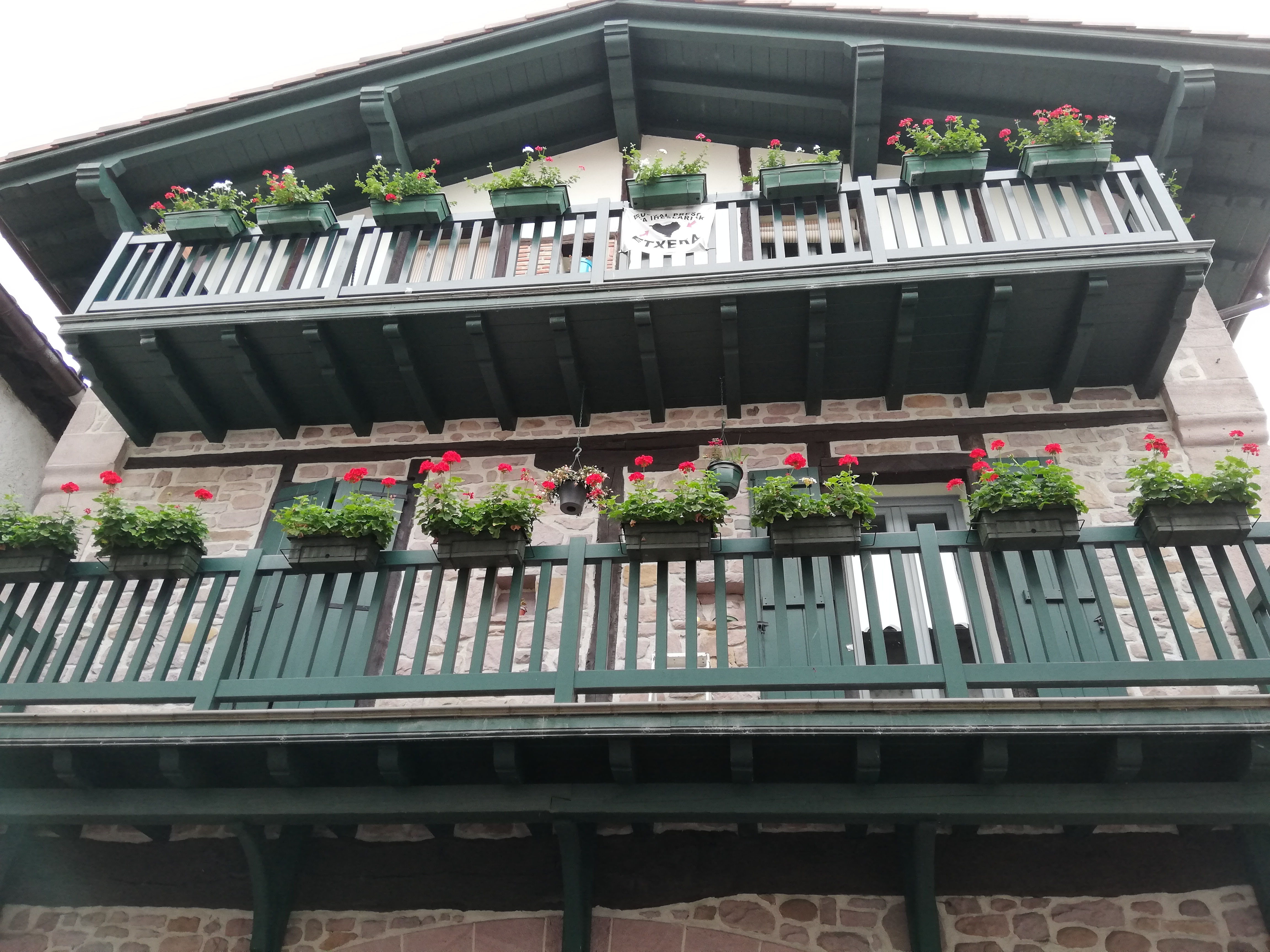 Kepa Auzmendi (1958-2009), painter of the Bidasoa School, died in exile.